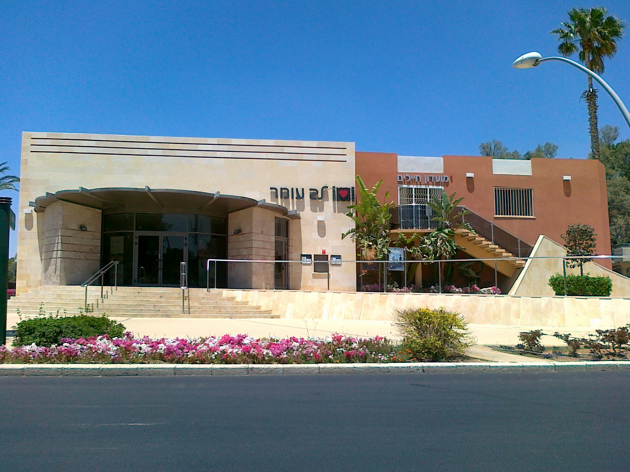 Omer,Israel, May 2012